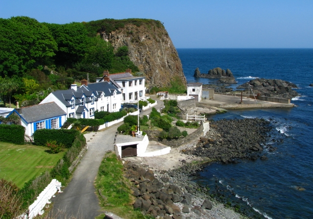 Portbraddan Collection of houses around the small harbour at Portbraddan (also spelled Portbraddon and Portbradden) on the western edge of White Park Bay.